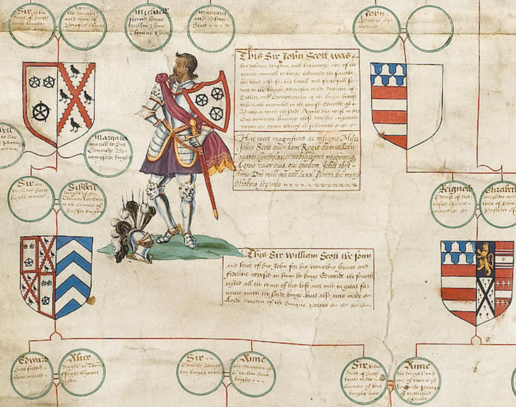 Sir John Scott (or Scot) (c. 1423 – 17 October 1485) of Scot's Hall in the parish of Smeeth, Kent, a committed supporter of the House of York. Among other offices, he served as Comptroller of the Household to Edward IV, and lieutenant to the Lord Warden of the Cinque Ports. Detail from from a family pedigree illuminated on vellum, commissioned by his descendant Sir John Scott (1570-1616) of Nettlestead Place, MP. Sold at Bonhams Auctioneers, London, 26 Jun 2007, Lot 46 "HERALDRY - SCOTT FAMILY OF KENT", for £3,840. He married Agnes Beaufitz (d.1486/7), daughter and co-heiress of William Beaufitz of The Grange, Gillingham, Kent. He displays on his shield the arms of Scott (Argent, three Catherine Wheels sable a bordure gules). The shield at left displays Scott impaling Beaufitz. By his wife he had a son: Sir William Scott (d. 24 August 1524), who married Sibyl Lewknor. The shield below shows Scott impaling Lewknor.